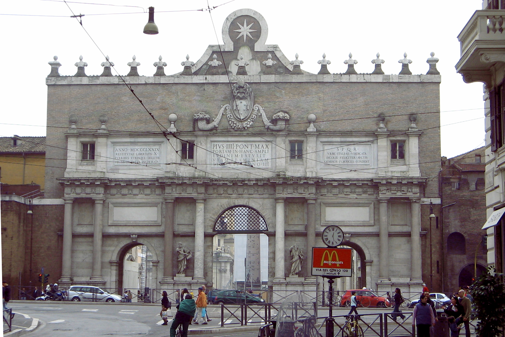 Porta del Popolo in Rome seen from via Flaminia